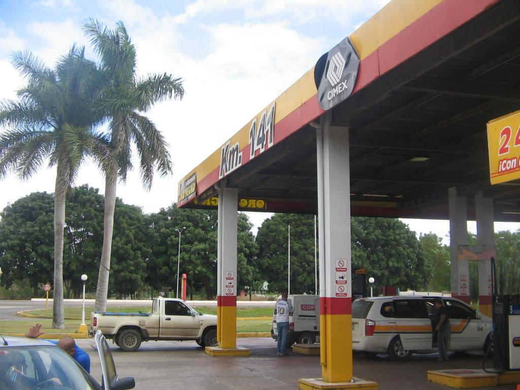 View of the rest area "Kilómetro 141", in Jagüey Grande, on the A1 motorway of Cuba.